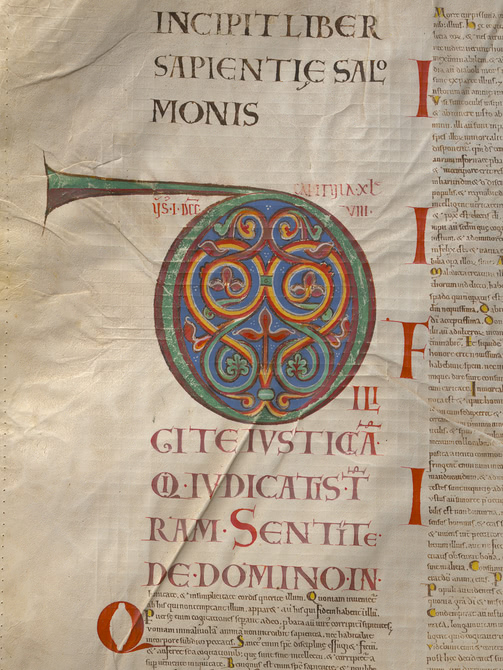 Picture from Codex Gigas